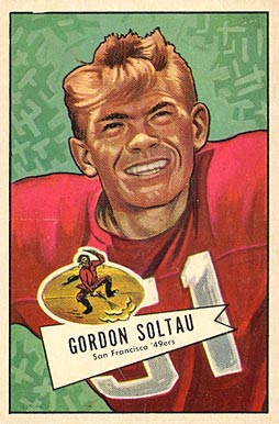 American football player Gordy Soltau on a 1952 Bowman Large card.